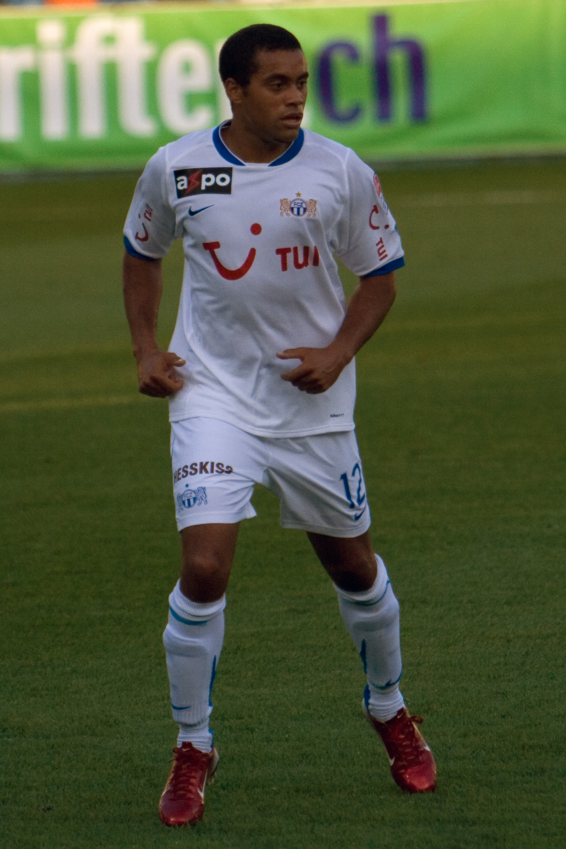 Alexandre Alphonse, soccer player FC Zurich